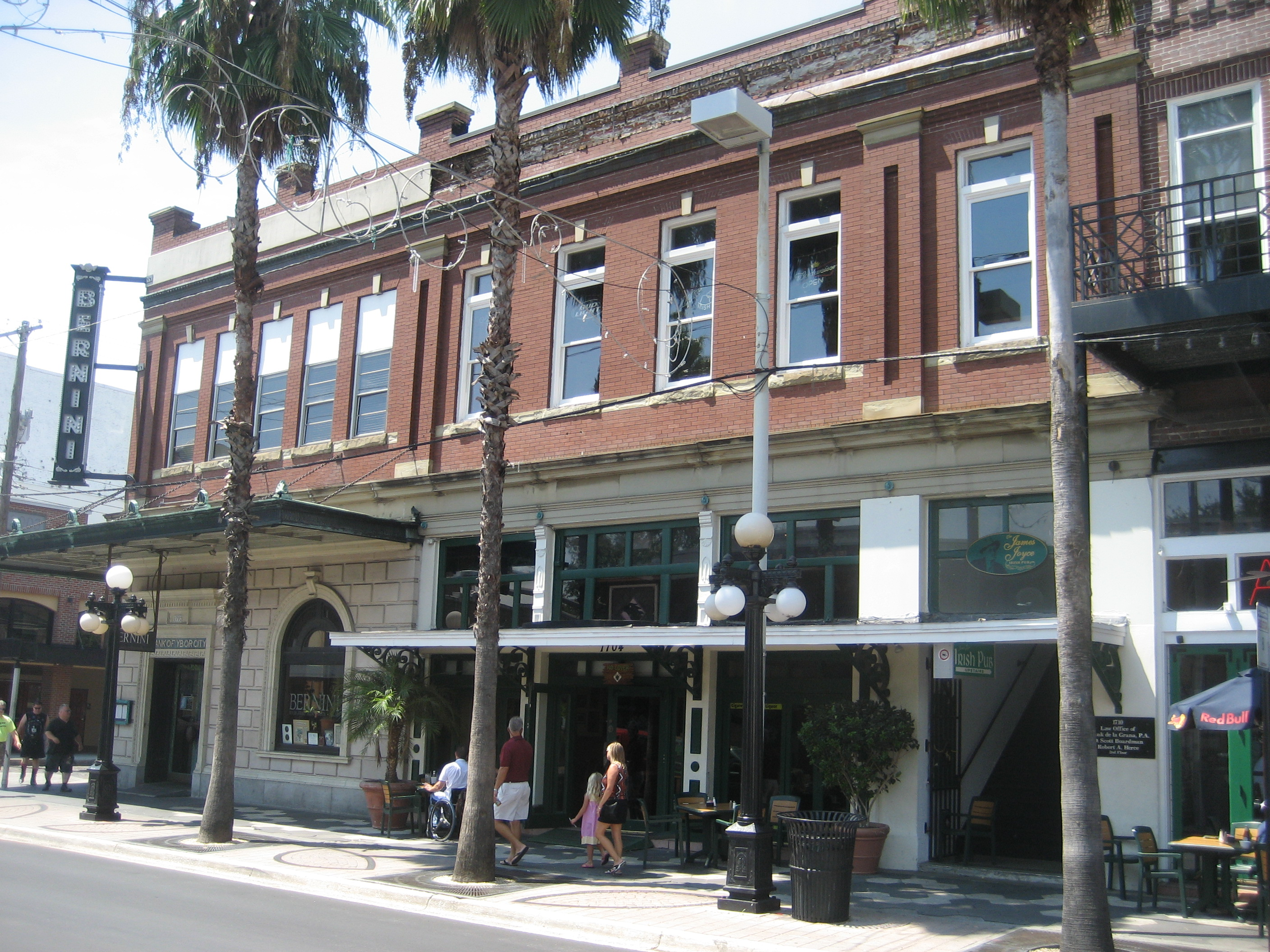 7th Avenue, Ybor City section of Tampa, Florida.